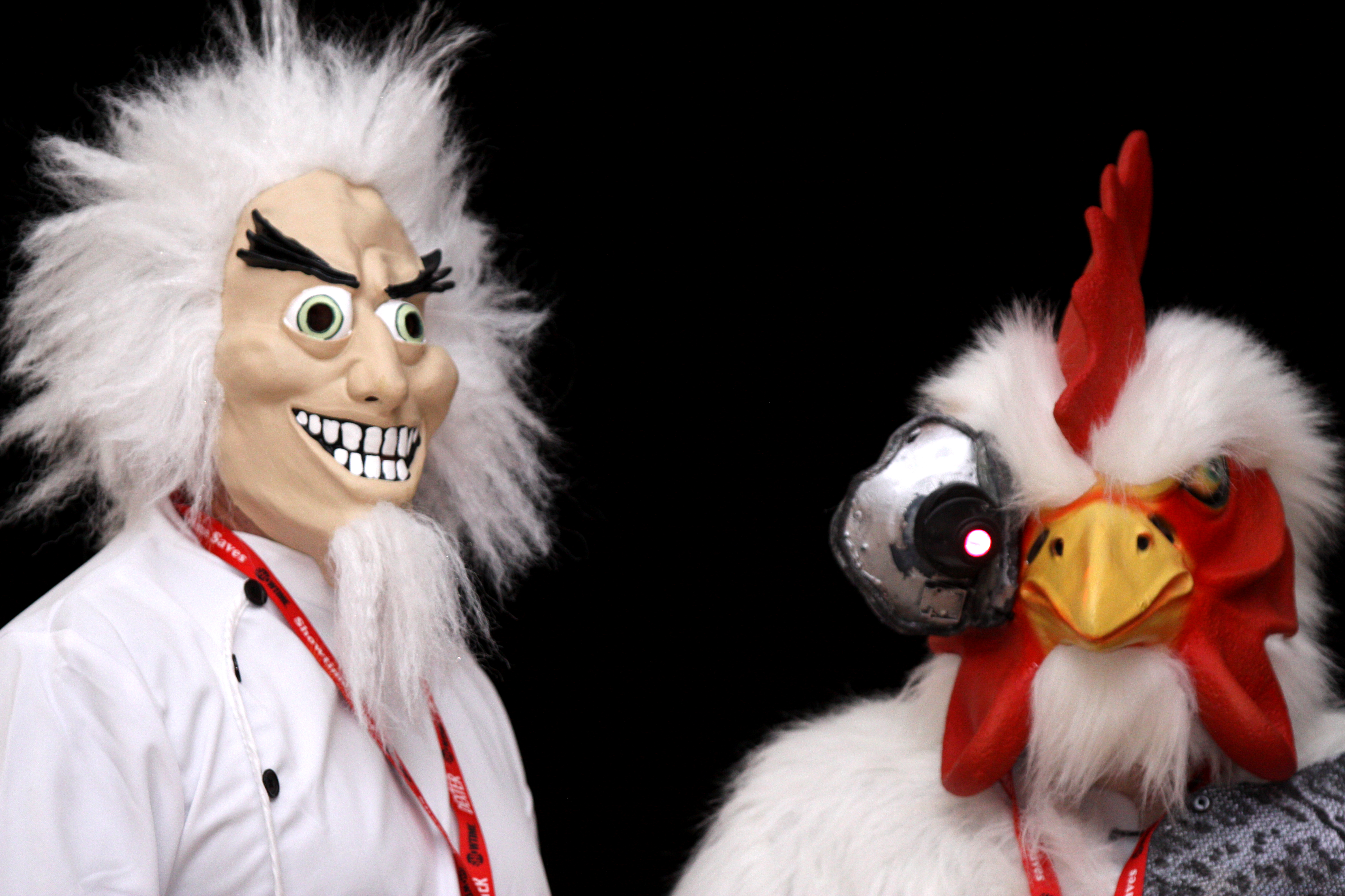 Robot Chicken costumes at the 2011 San Diego Comic-Con International in San Diego, California.